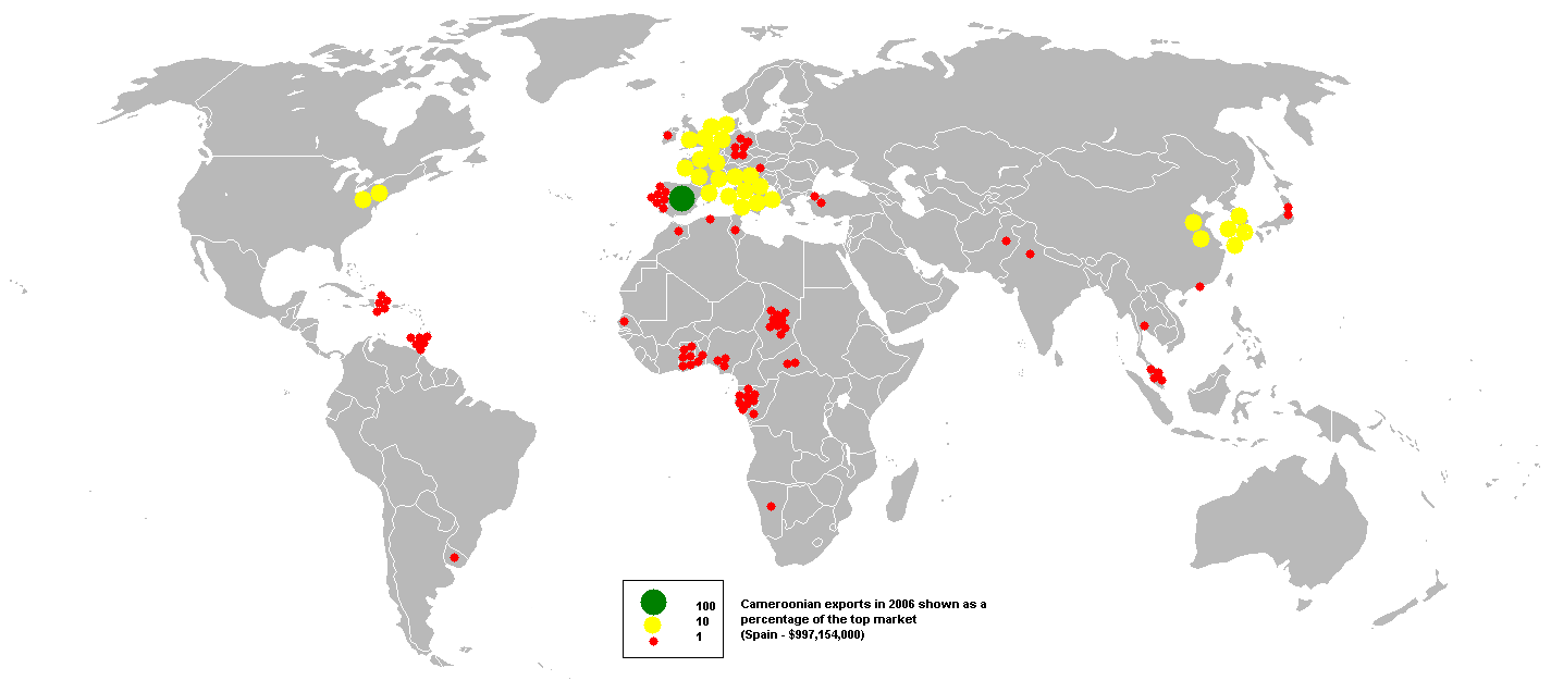 This bubble map shows the global distribution of Cameroonian exports in 2006 as a percentage of the top market (Spain - $997,154,000). This map is consistent with incomplete set of data too as long as the top producer is known. It resolves the accessibility issues faced by colour-coded maps that may not be properly rendered in old computer screens. Data was extracted on 26th September 2007 from Based on :Image:BlankMap-World.png